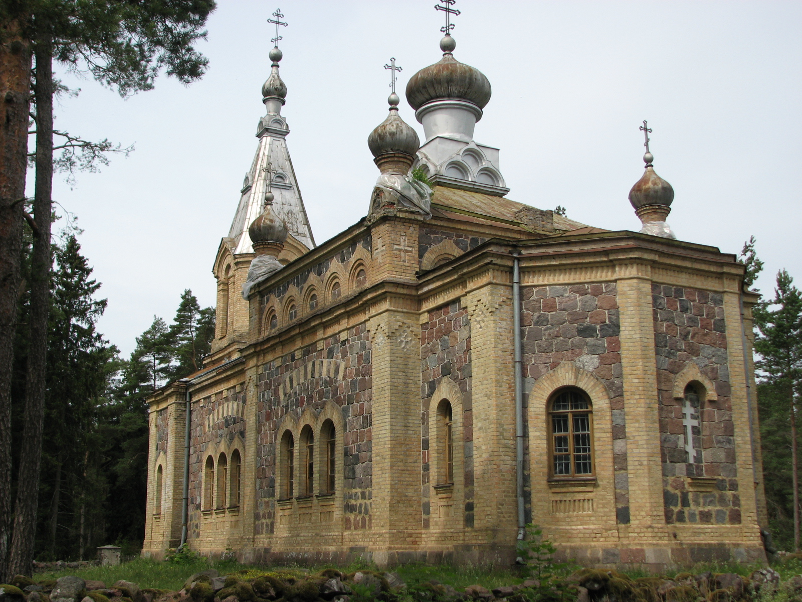 Kuriste Church of Virgin Mary, Kuriste, Hiiumaa, Estonia. Year 2008